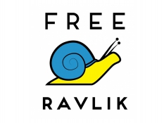 Равлики (партизанський загін)